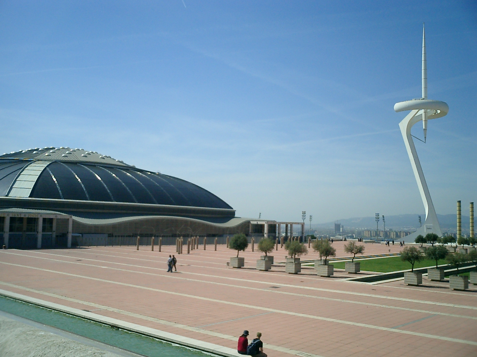 Barcelona, Olympische Spiele, Palau San Jordi, Arata Isozaki (Architekt), Torre Calatrava